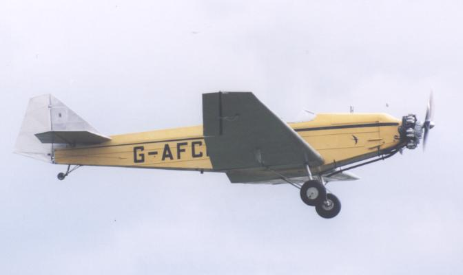 British Aircraft Swallow II G-AFCL at Kemble airfield, Gloucestershire